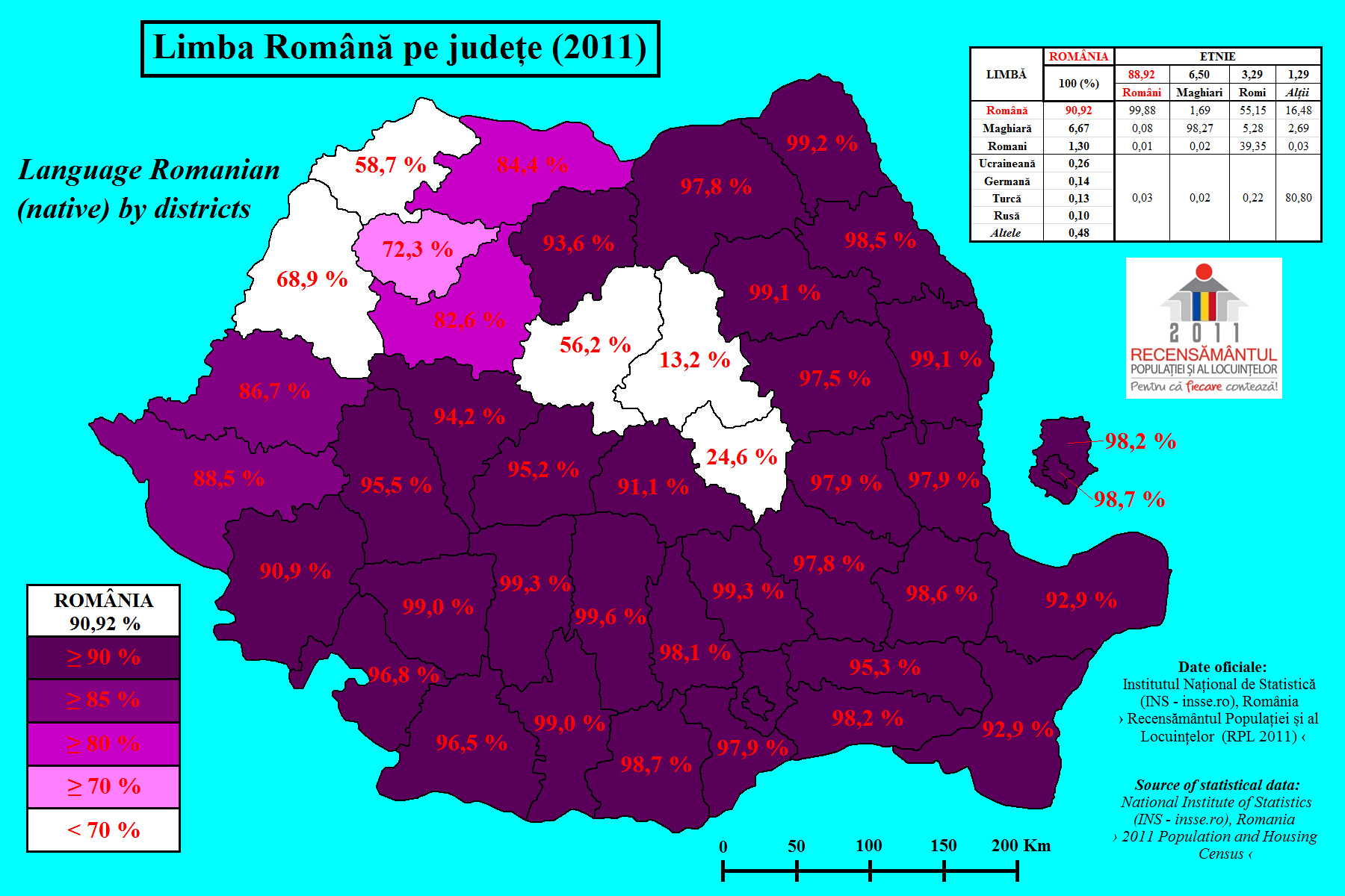 Language Romanian map of Romania by districts (Census 2011)